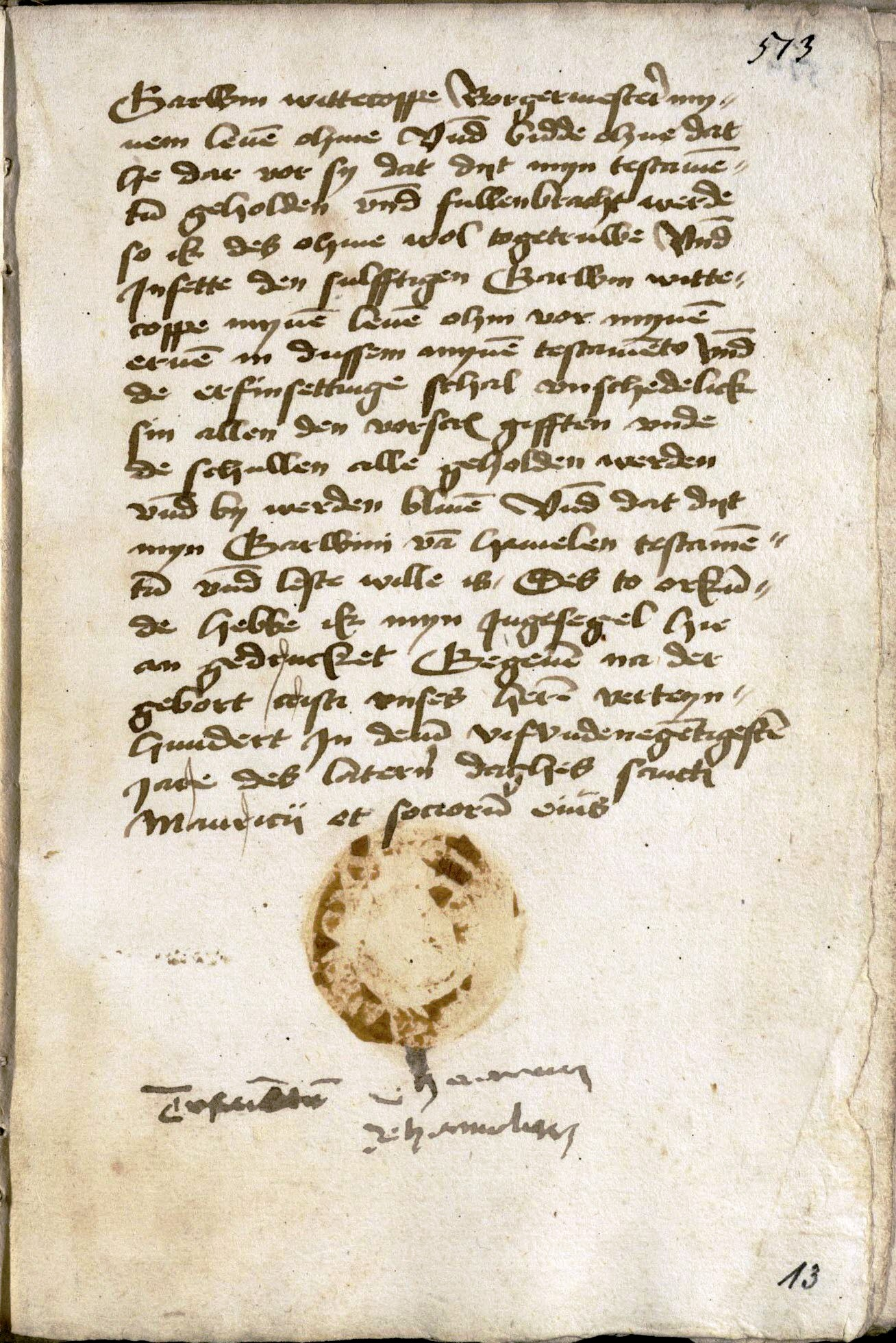 Final page of Gerwins von Hameln’s will from 23 September 1495. Braunschweig Archives’ signature: A I 3, Nr. 1, fol.13r (S. 513)